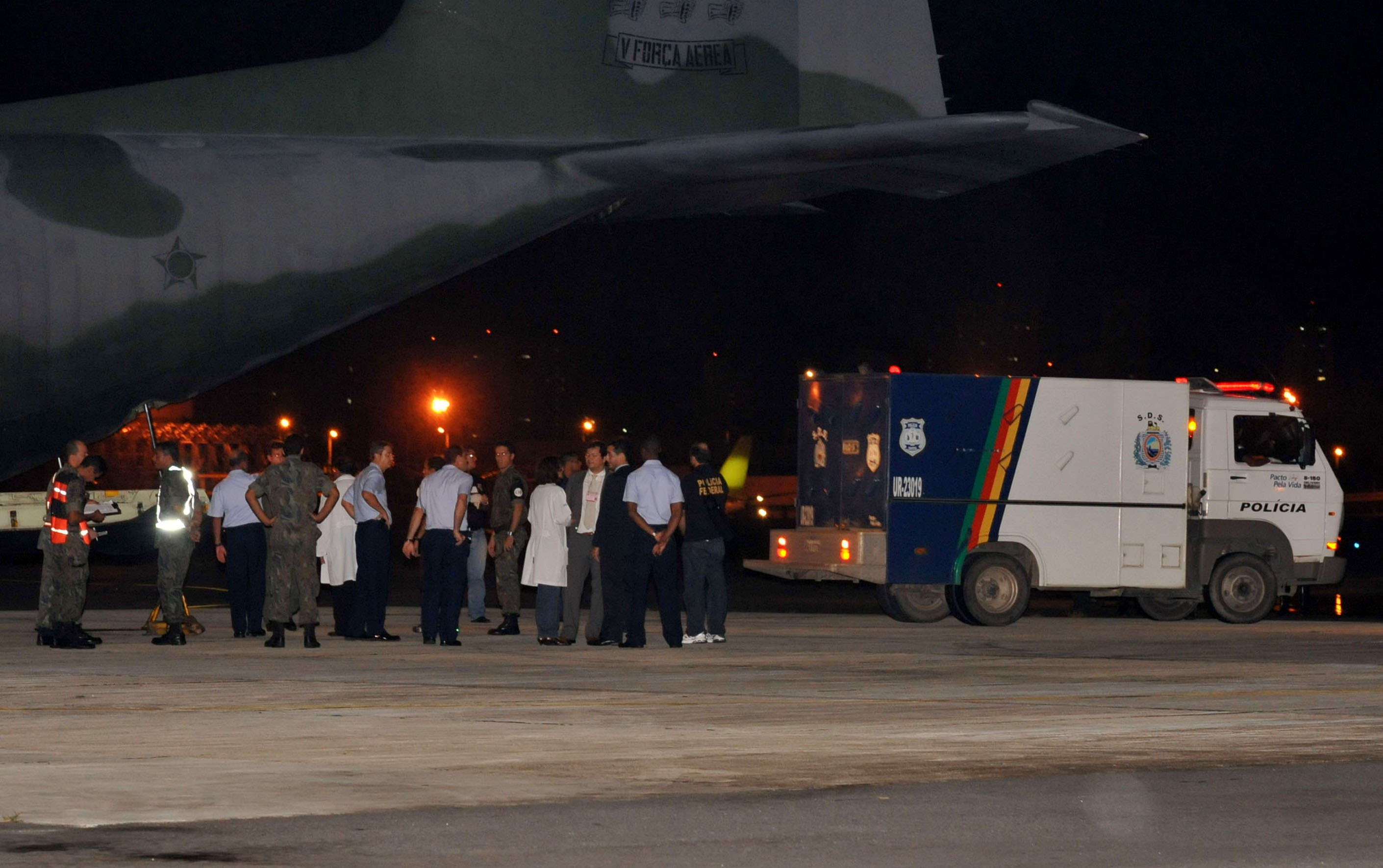 A Hércules C-130 aircraft of the Brazilian Air Force with the first 16 recovered bodies of Air France Flight 447, which were transported from the air base to the Instituto Médico Legal (IML, "Legal Medical Institute") for identification. Volkswagen Delivery 8.150 truck.